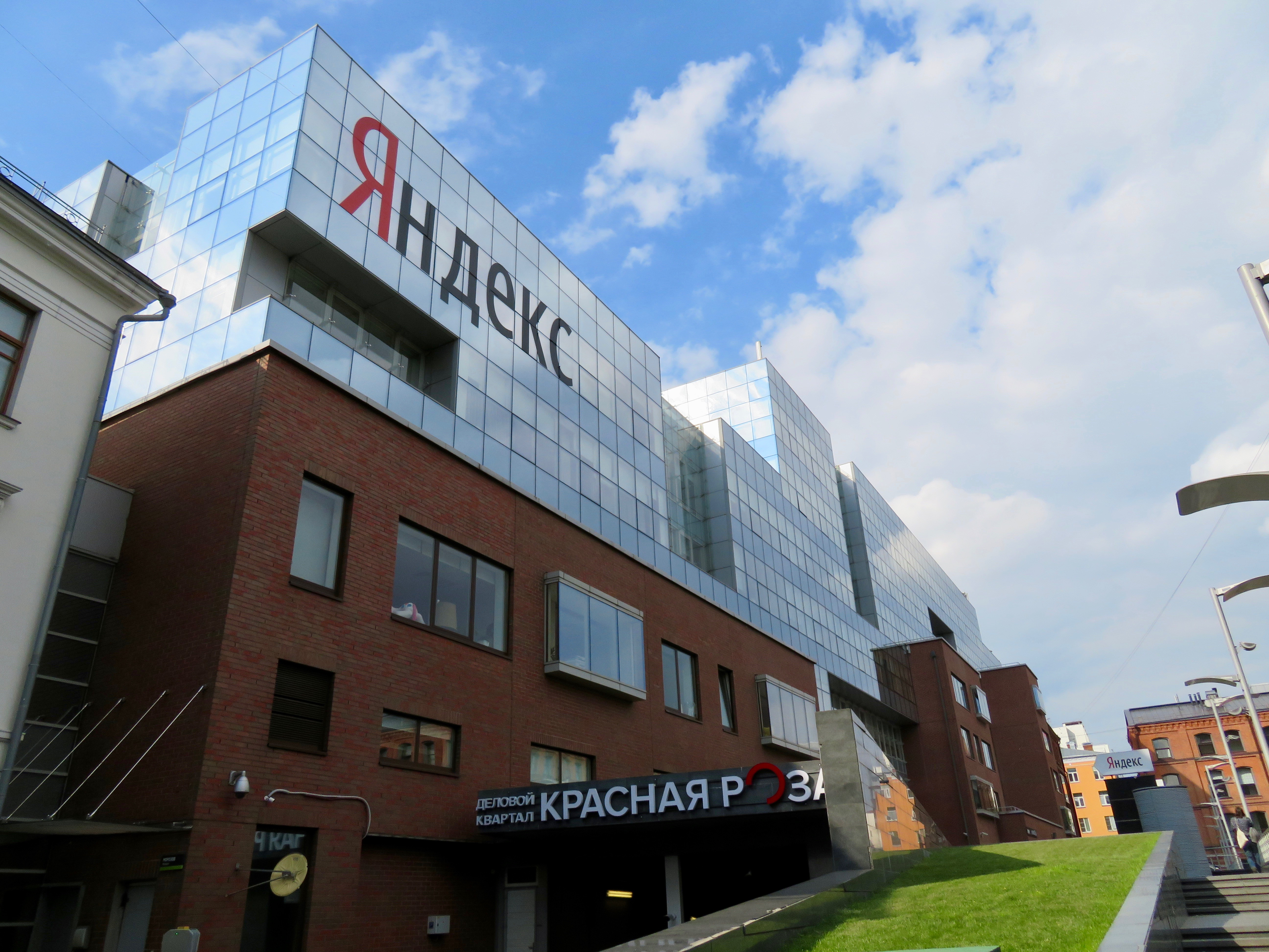 Yandex main office in Moscow.